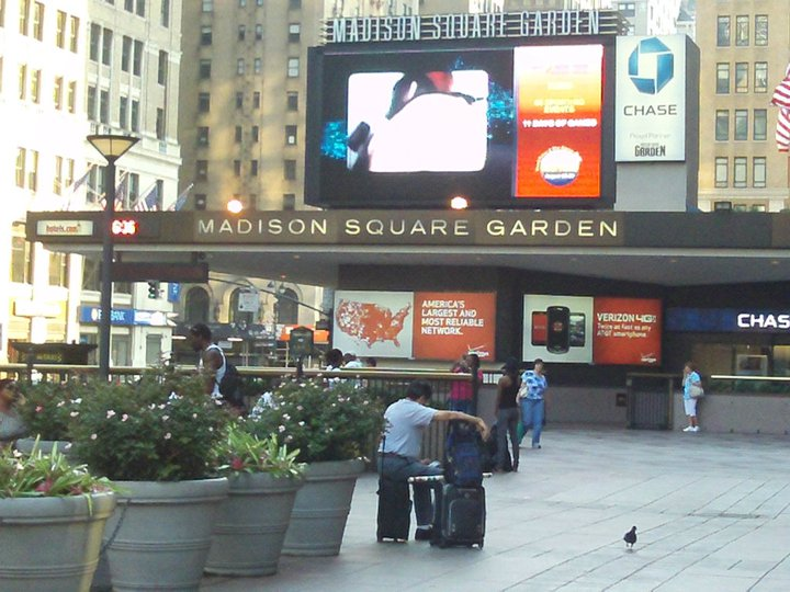 Snapshop I took on my trip to NYC in August 2011 of Madison Square Garden where Marilyn Monroe singed Happy Birthday to the 35th president John F. Kennedy on his 45th birthday on May 19th, 1962